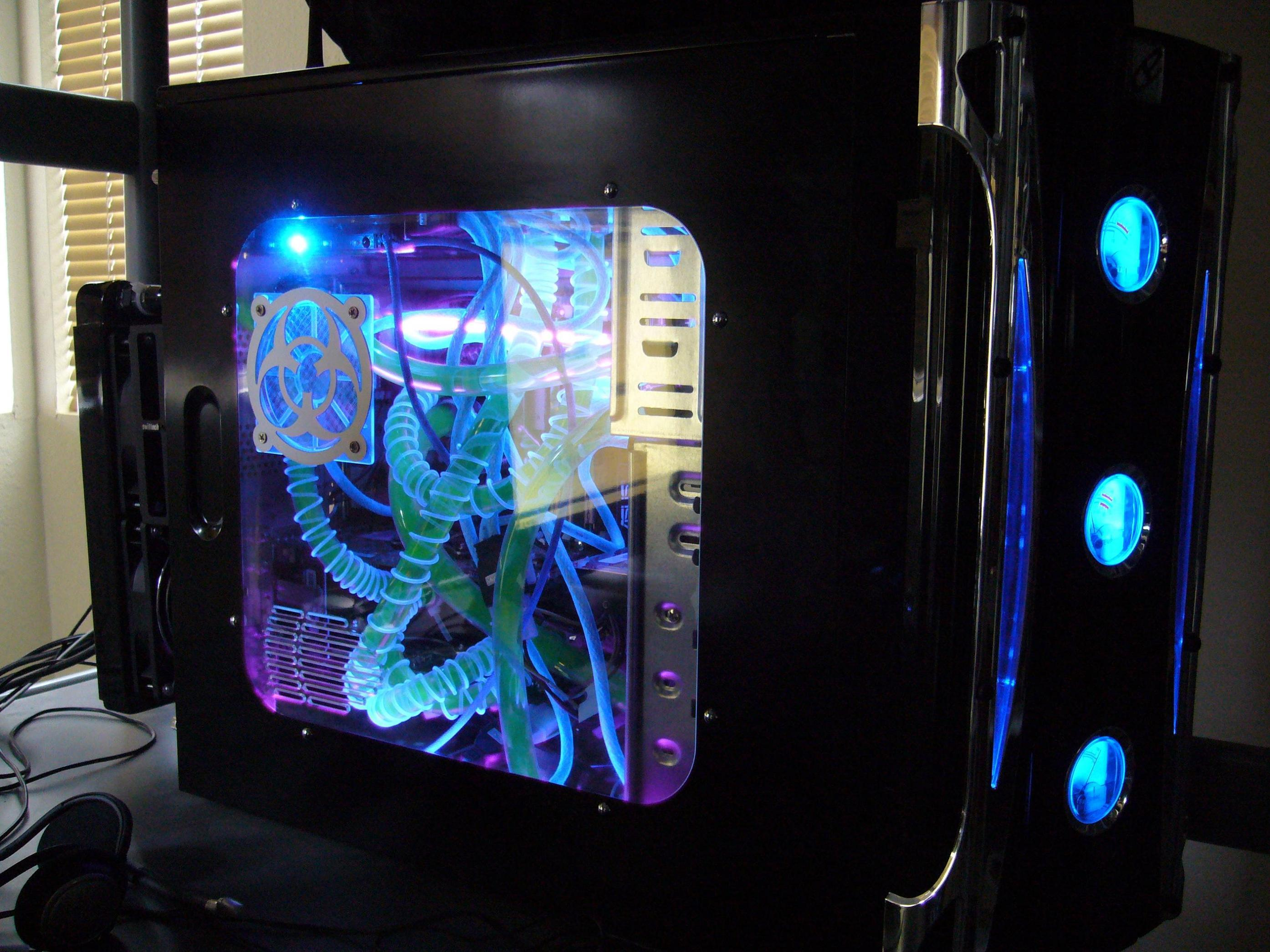 A neon colored computer resembling a high end system.